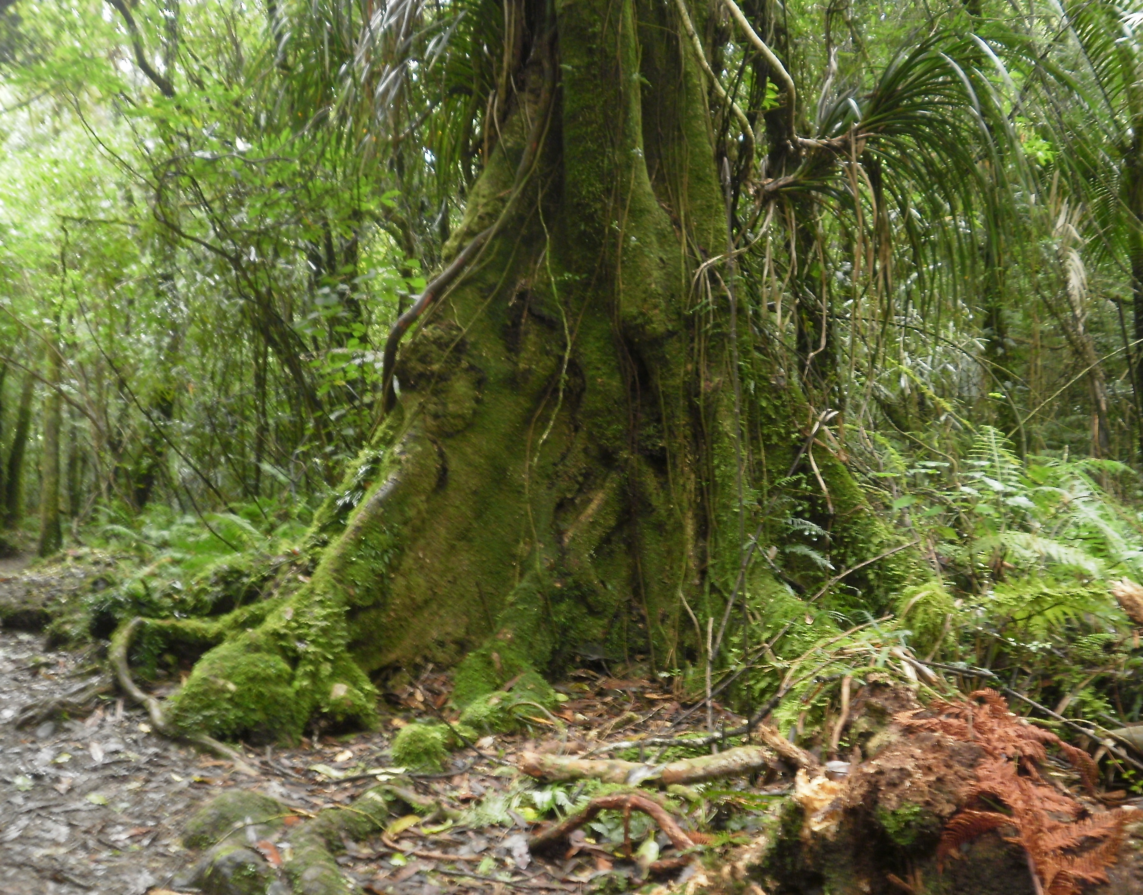 Pukatea Laurelia novae-zelandiae trunk in Orongorongo Valley, Rimutaka Forest Park, Wellington, New Zealand.